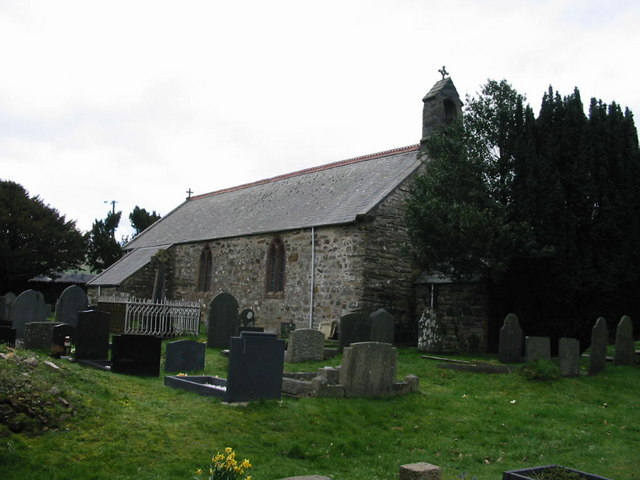 Eglwys Llanfihangel-y-traethau, near to Ynys, Gwynedd, Wales. An isolated church, typical of the Welsh countryside.